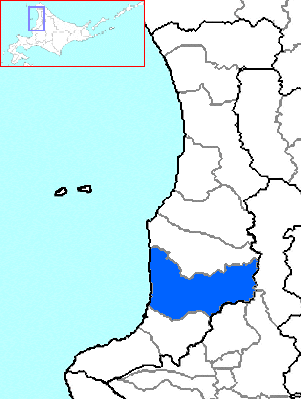 The location of Obira in Rumoi Subprefecture, Hokkaido Prefecture, Japan.